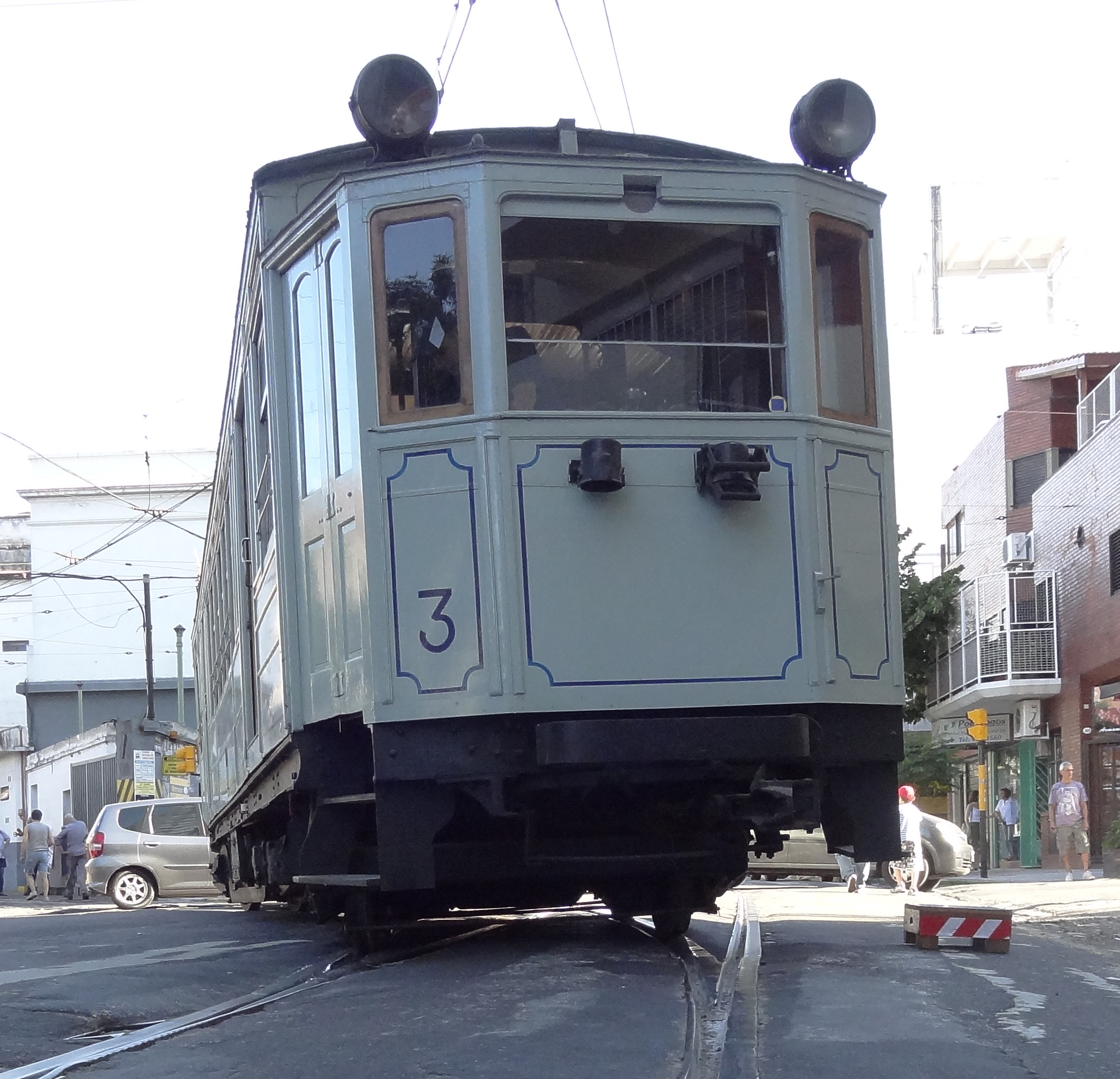 U.E.C. Preston N° 3 - Underground and Tramcar from the Subte of Buenos Aires, actually under the protection of the AAT in Argentina.